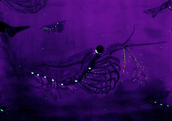 bioluminescence antarctic krill - watercolor by User:uwe kils.